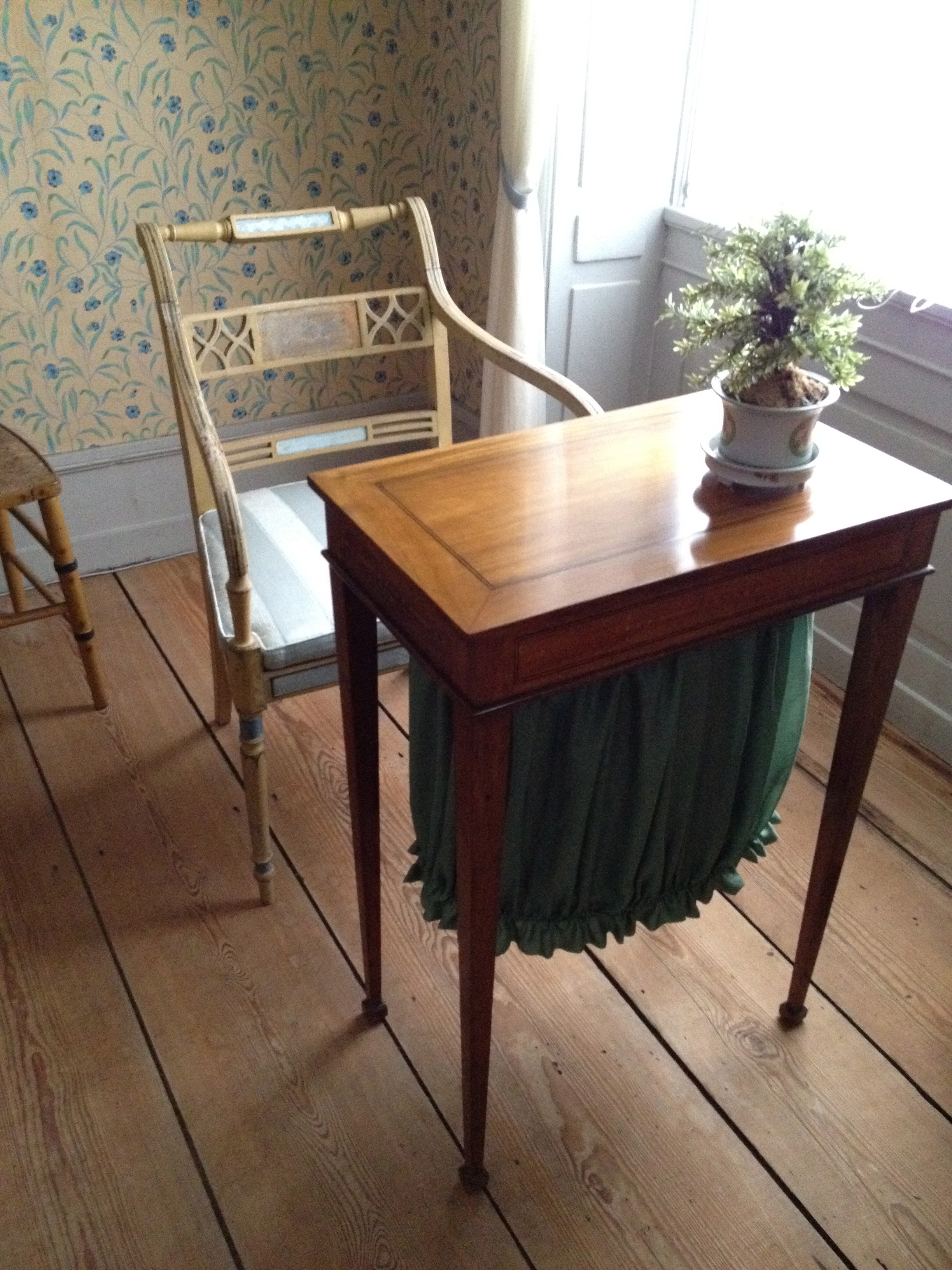 Details from the main building - Lille Brede - at Brede Værk.